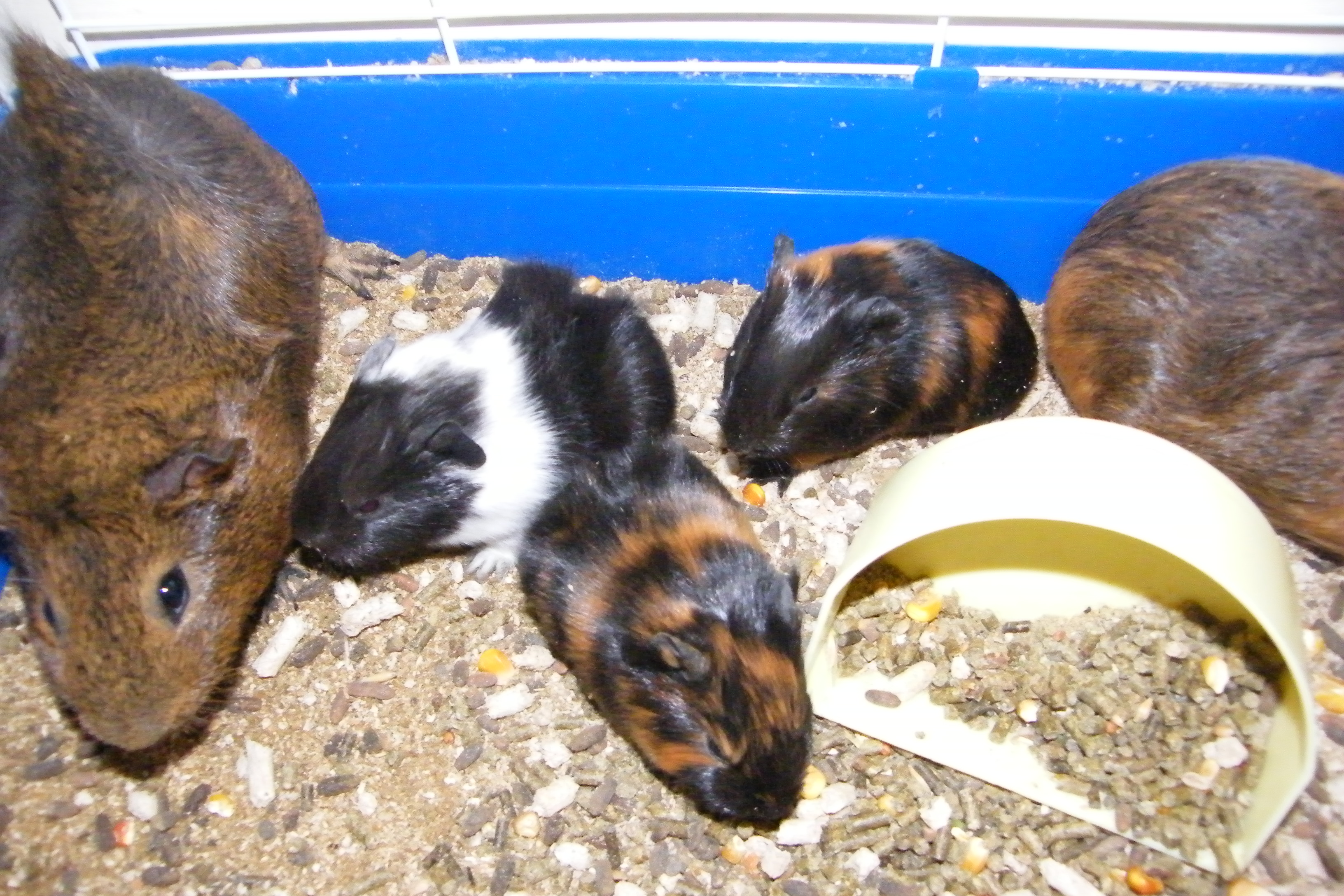 Cavia porcellus family